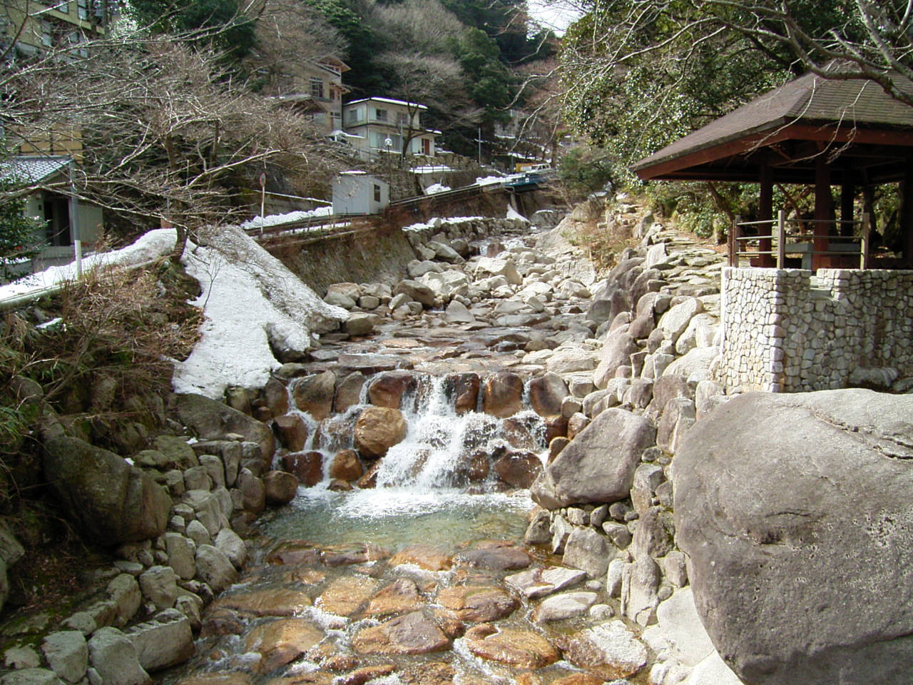 Oishi park Mie Japan